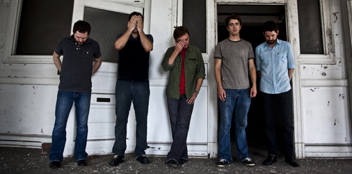 Through the Sparks in a building.